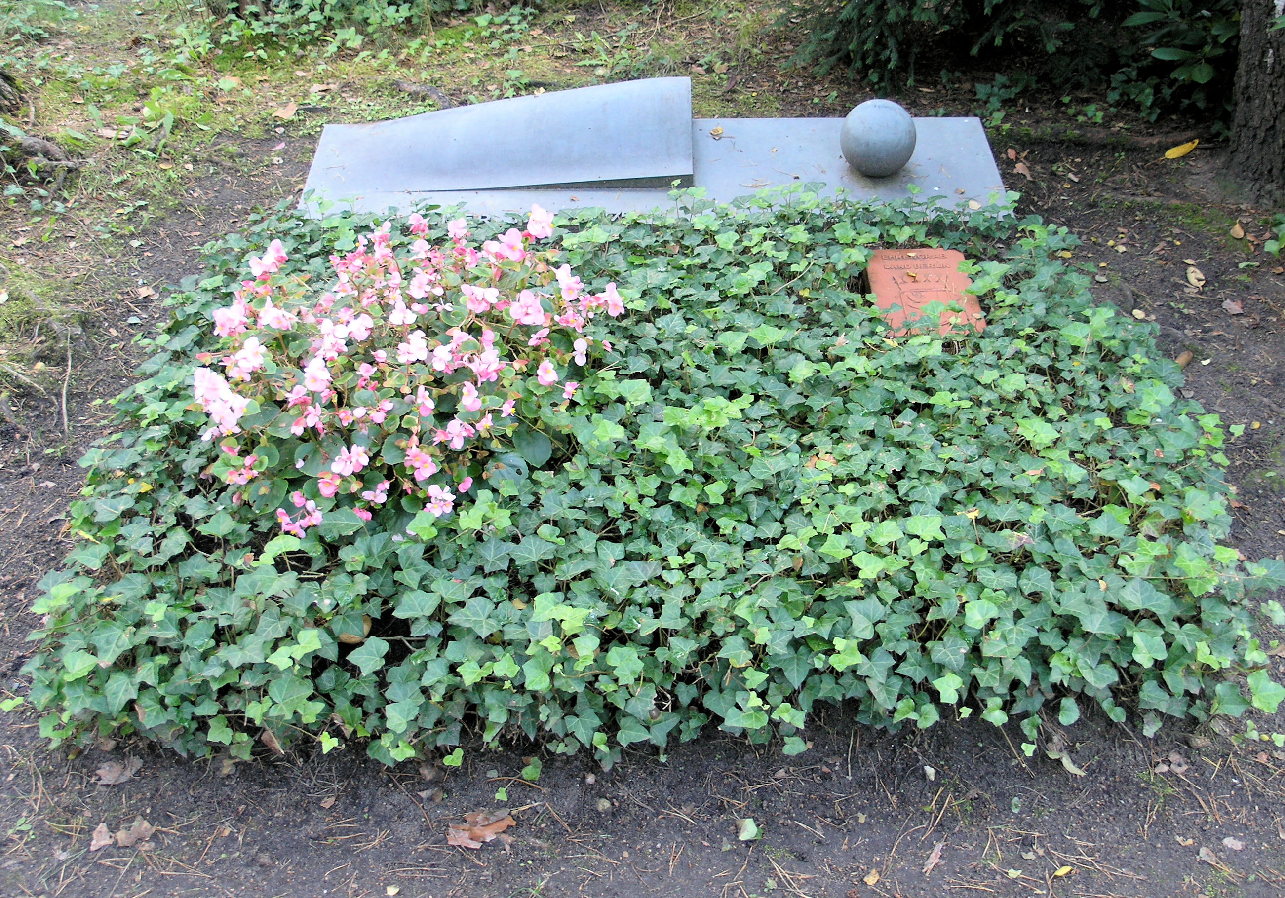 "Ehrengrab" (grave of honor), Boris Blacher, Potsdamer Chaussee 75, Berlin-Nikolassee, Germany